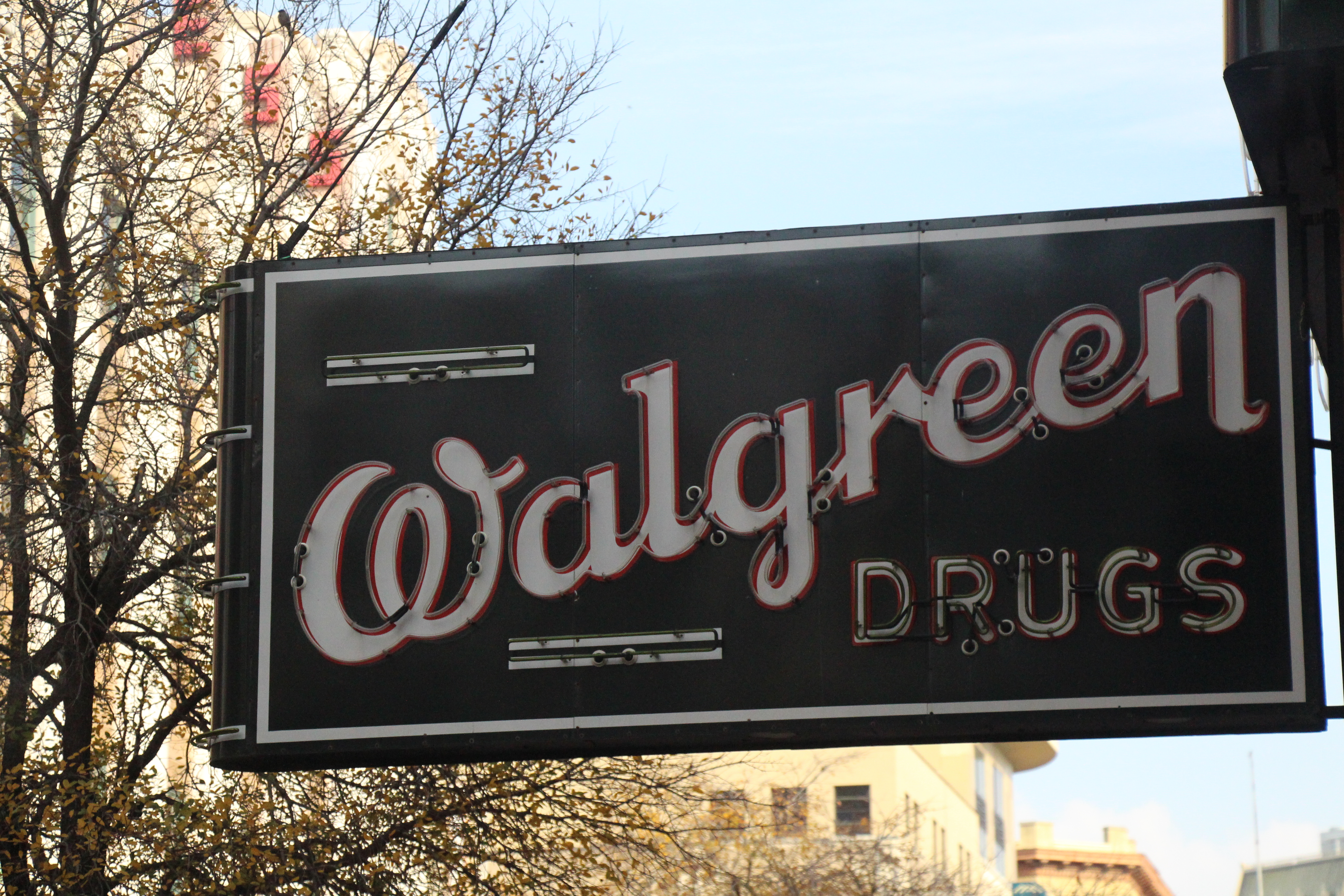 Taken on my travels in December 2012.